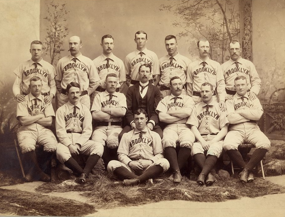 Photograph shows a studio portrait of the Brooklyn Bridegrooms baseball team in 1889, posed are: manager Bill McGunnigle, players George J. "Germany" Smith, George B. Pinckney, John Stewart "Pop" Corkhill, Robert Lee Caruthers, William H. "Adonis" Terry, Hubert B. "Hub" Collins, David L. Foutz, Michael J. "Mickey" Hughes, William D. "Darby" O'Brien, Thomas "Oyster" Burns, Albert "Doc" Bushong, Robert H. Clark, Joseph P. Visner, and Thomas Joseph Lovett.